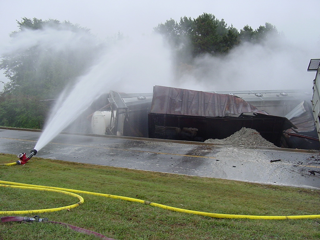 Derailed cars block a roadway in Farragut, TN in 2002.